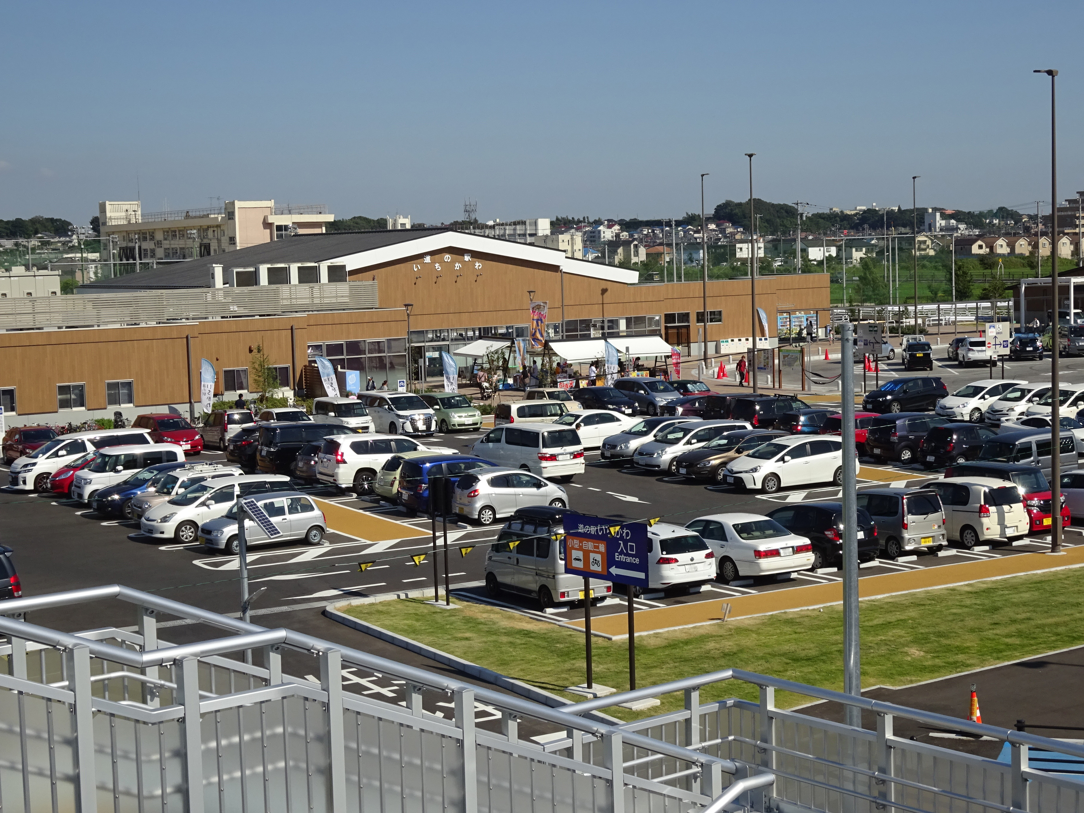 Michinoeki Ichikawa